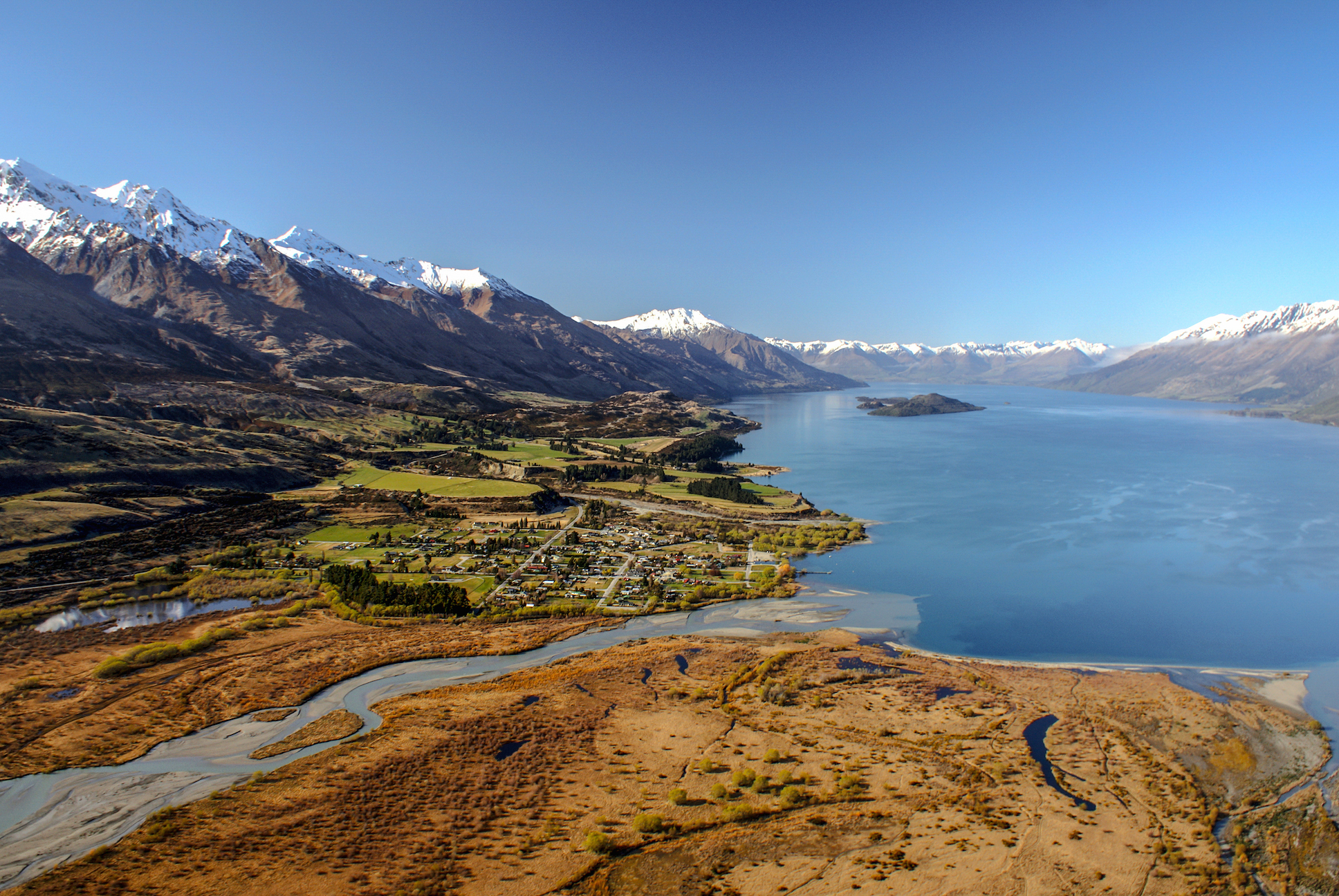 Obec Glenorchy - severní konec jezera Wakatipu, Nový Zéland